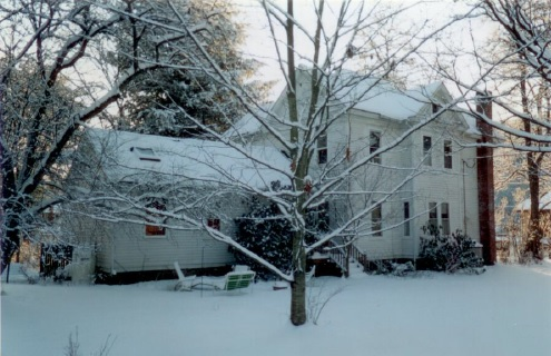 Anthony Manny House, Hankins, N.Y., circa 2000